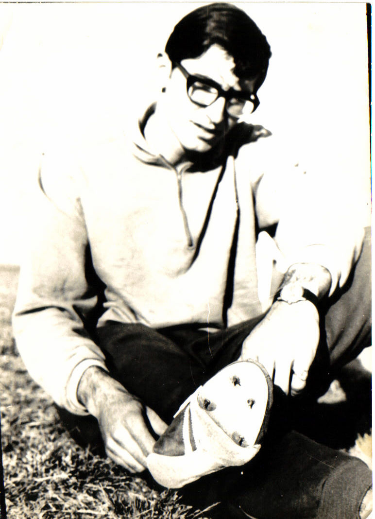 Yosef pickel young